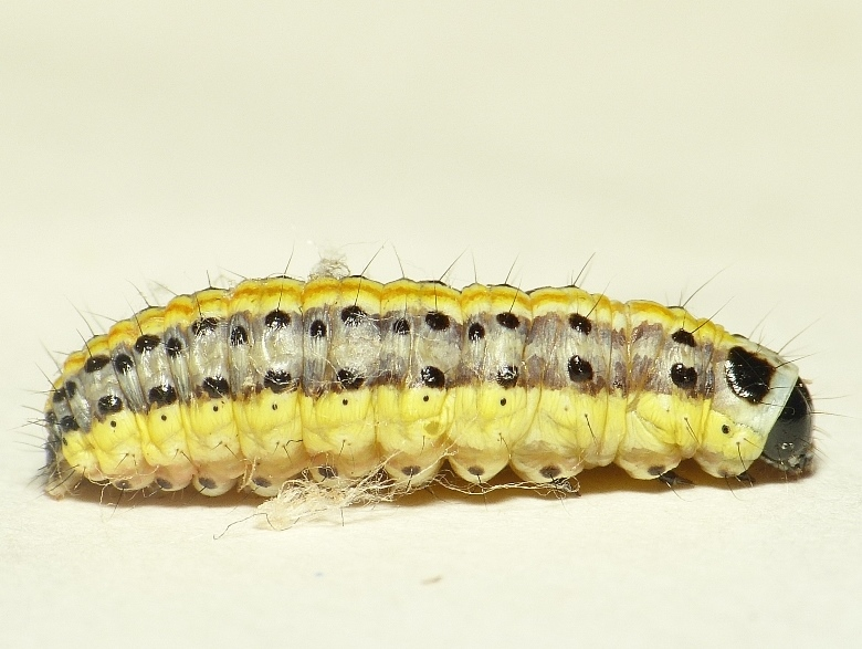 Evergestis extimalis larva, location: The Netherlands - Rhenen - Blauwe Kamer - Gelderland